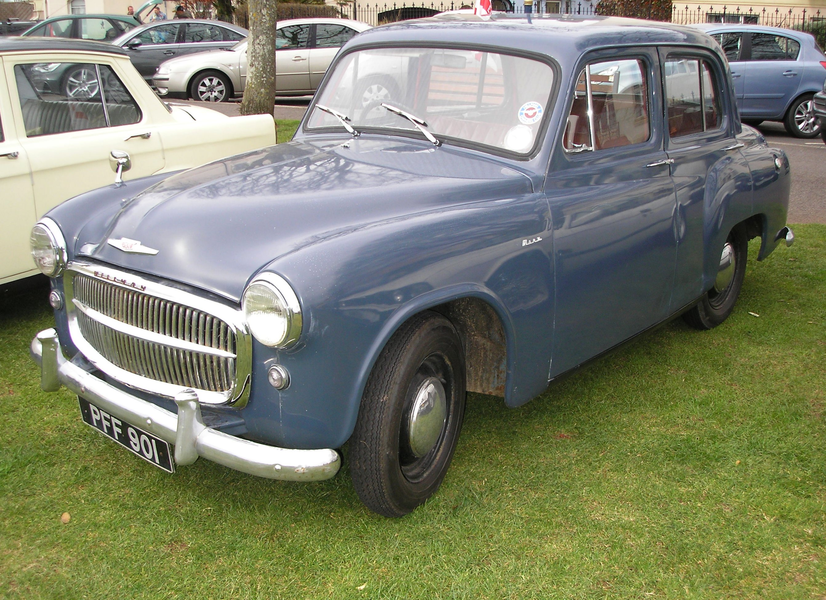 A car rally to celebrate the festival of St. George, on the Den at Teignmouth. Sunday 21st April 2013. Camera: Olympus FE-120 6.0 Digital.